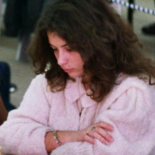 Alisa Maric, Chess Olympiad 1988 in Thessaloniki, Photographer Gerhard Hund.